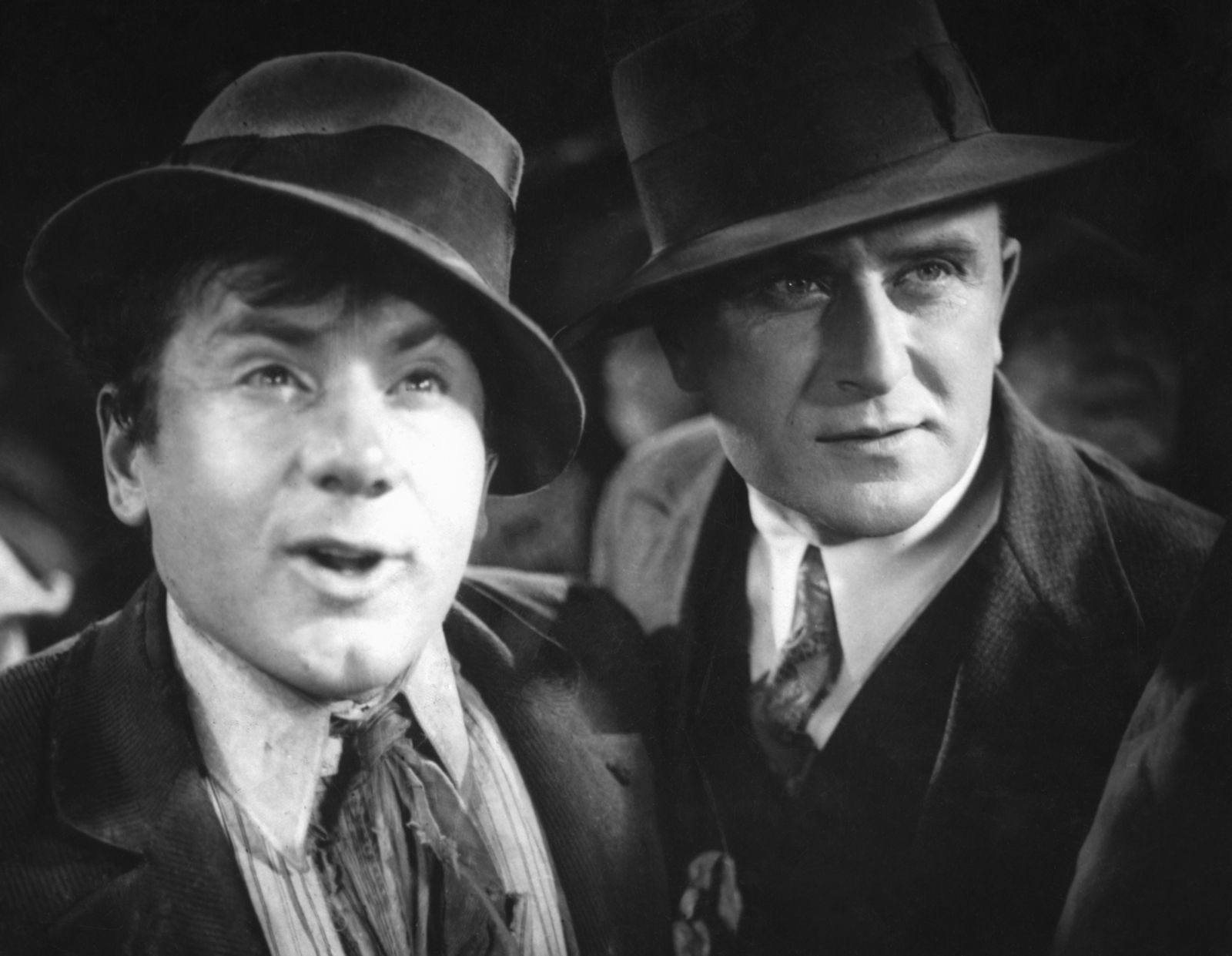 Igor Ilyinsky (left?)